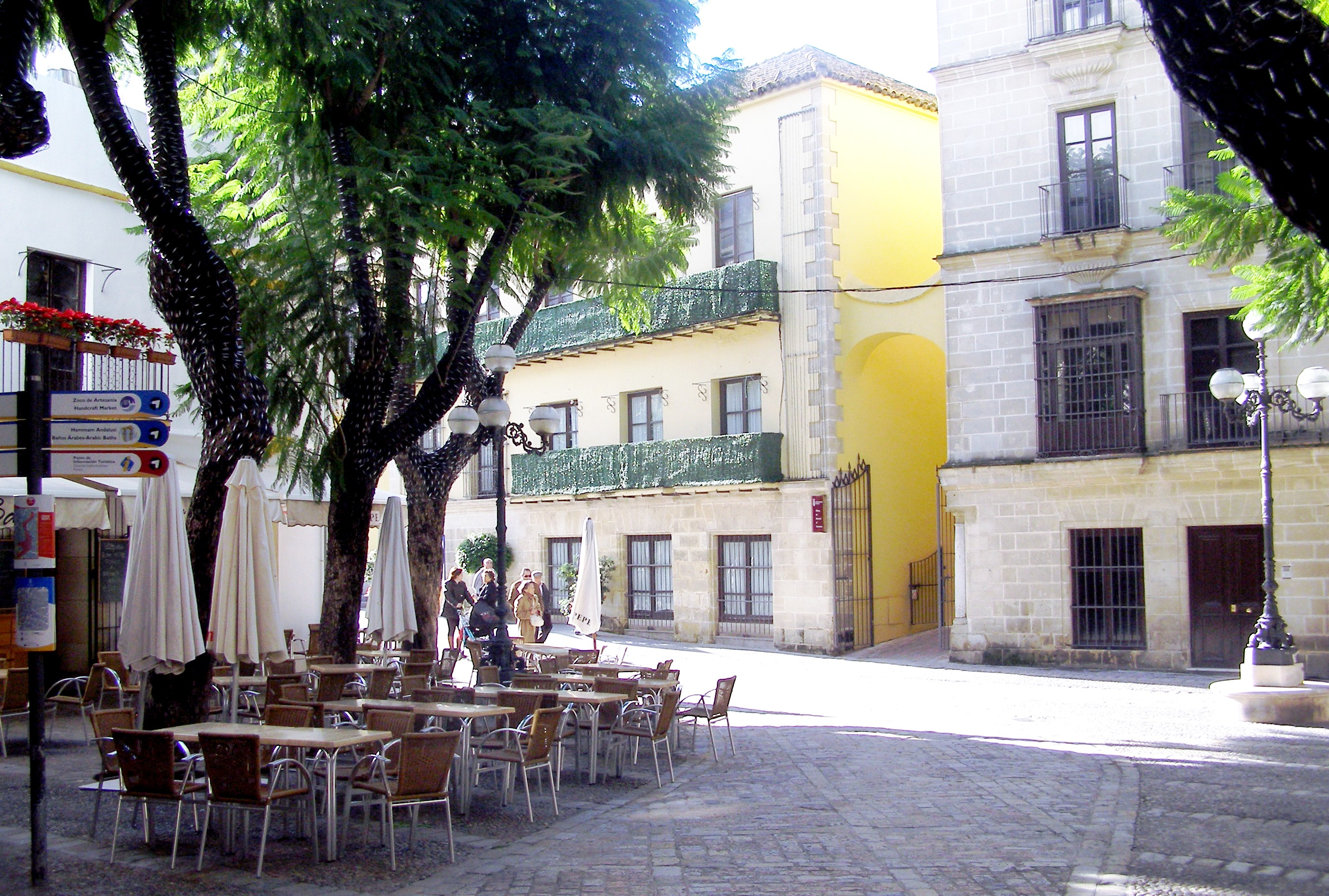 Plaza de la Yerba. Grass Square. Jerez de la Frontera